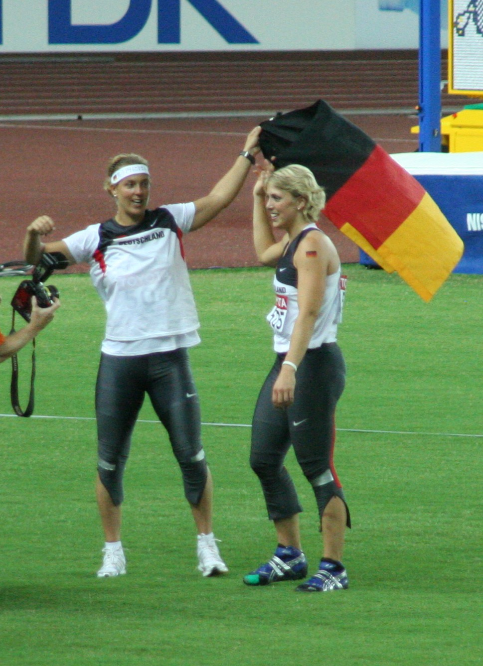 World Athletics Championships 2007 in Osaka - German javelin throwers Steffi Nerius and Christina Obergfoell celebrating their third and second place in the competition